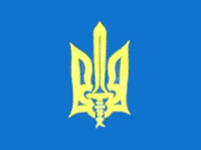 The flag of the Organization of Ukrainian Nationalists